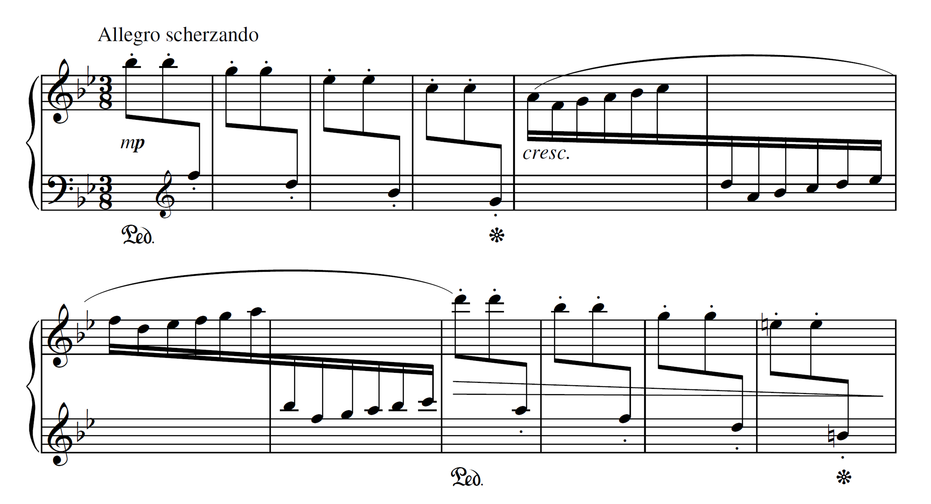 Excerpt of Étincelles Op. 36 No. 6 by Moritz Moszkowski